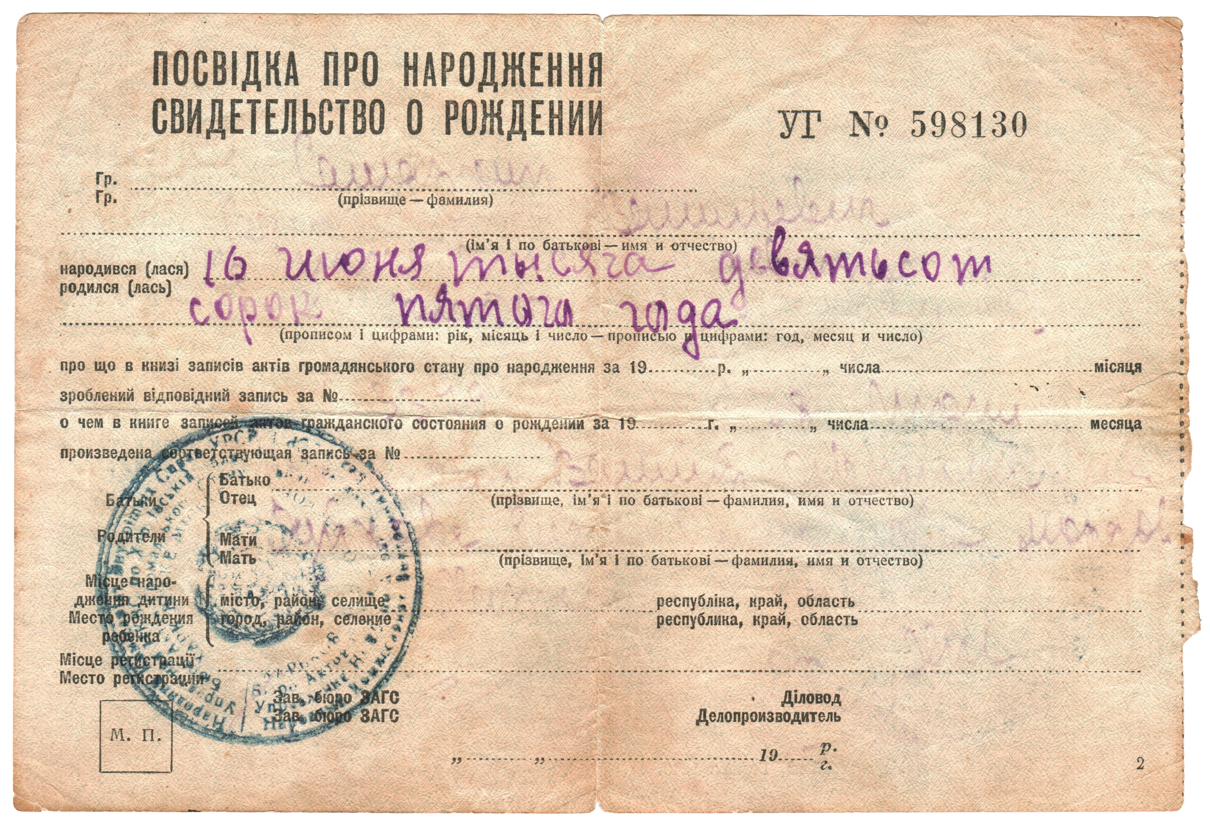 Ukrainian Soviet socialist Republic